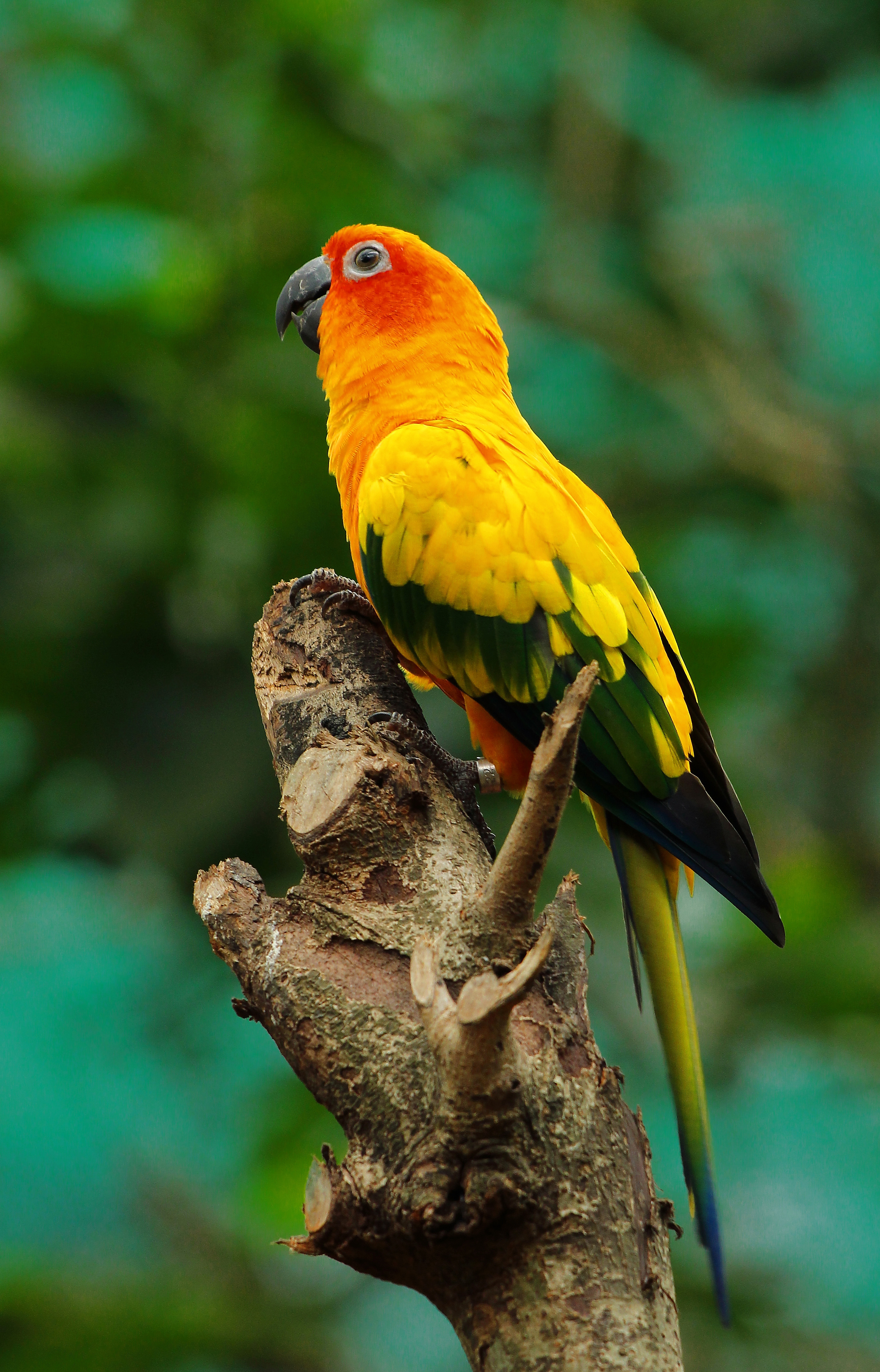 i love this colour